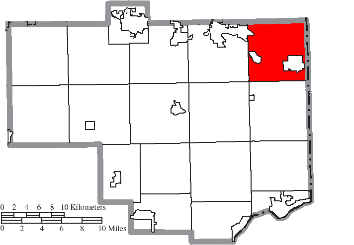 Map of the municipal and township boundaries of Columbiana County, Ohio, United States, as of the 2000 census, with the location of Unity Township highlighted. Township borders are shown only in unincorporated areas in order to differentiate incorporated and unincorporated areas more clearly.